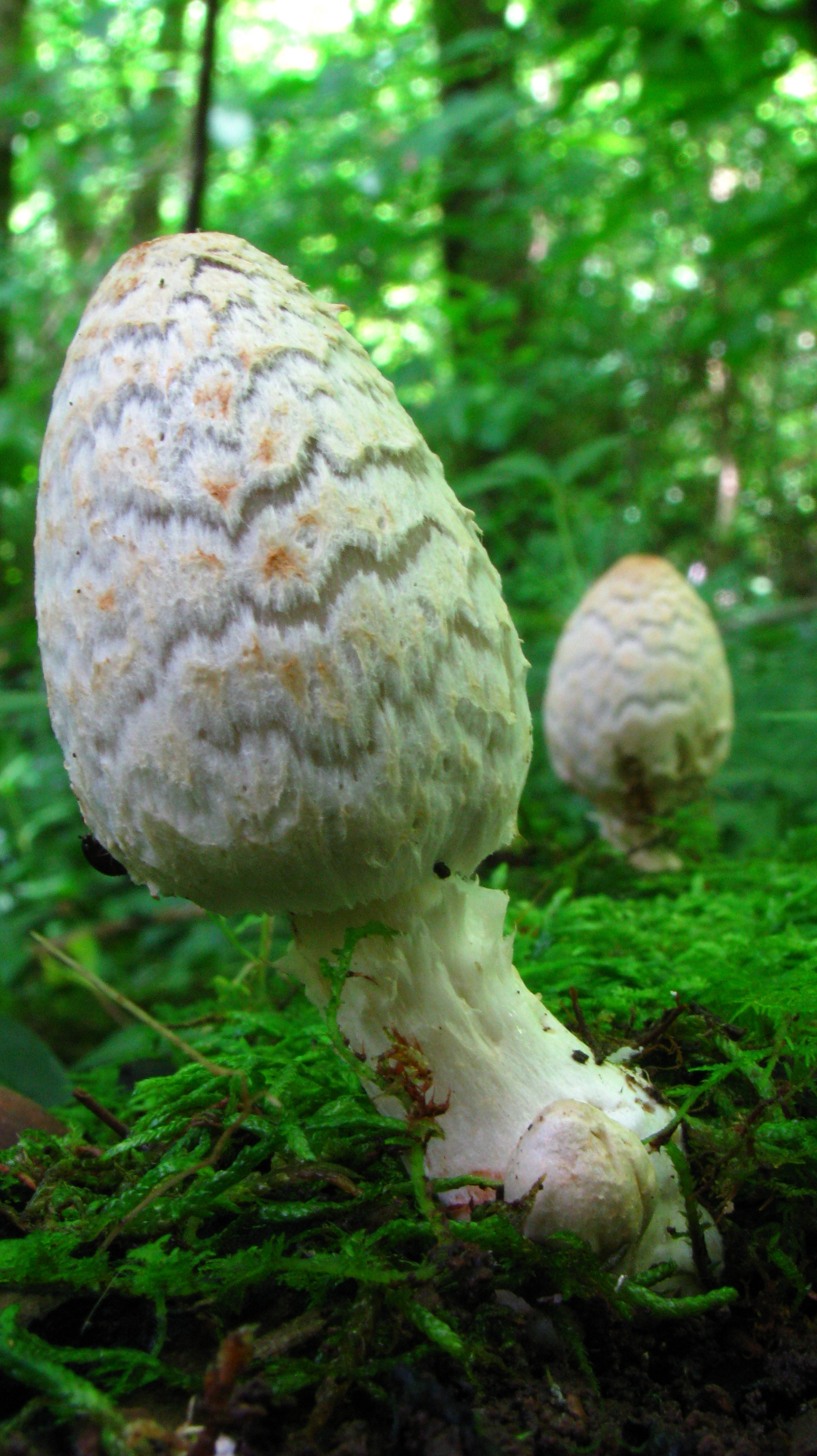 The fungus Coprinopsis variegata (Peck) Redhead, Vilgalys & Moncalvo. Specimen photographed in Kinderhook Trail, Wayne National Forest, Ohio, USA.